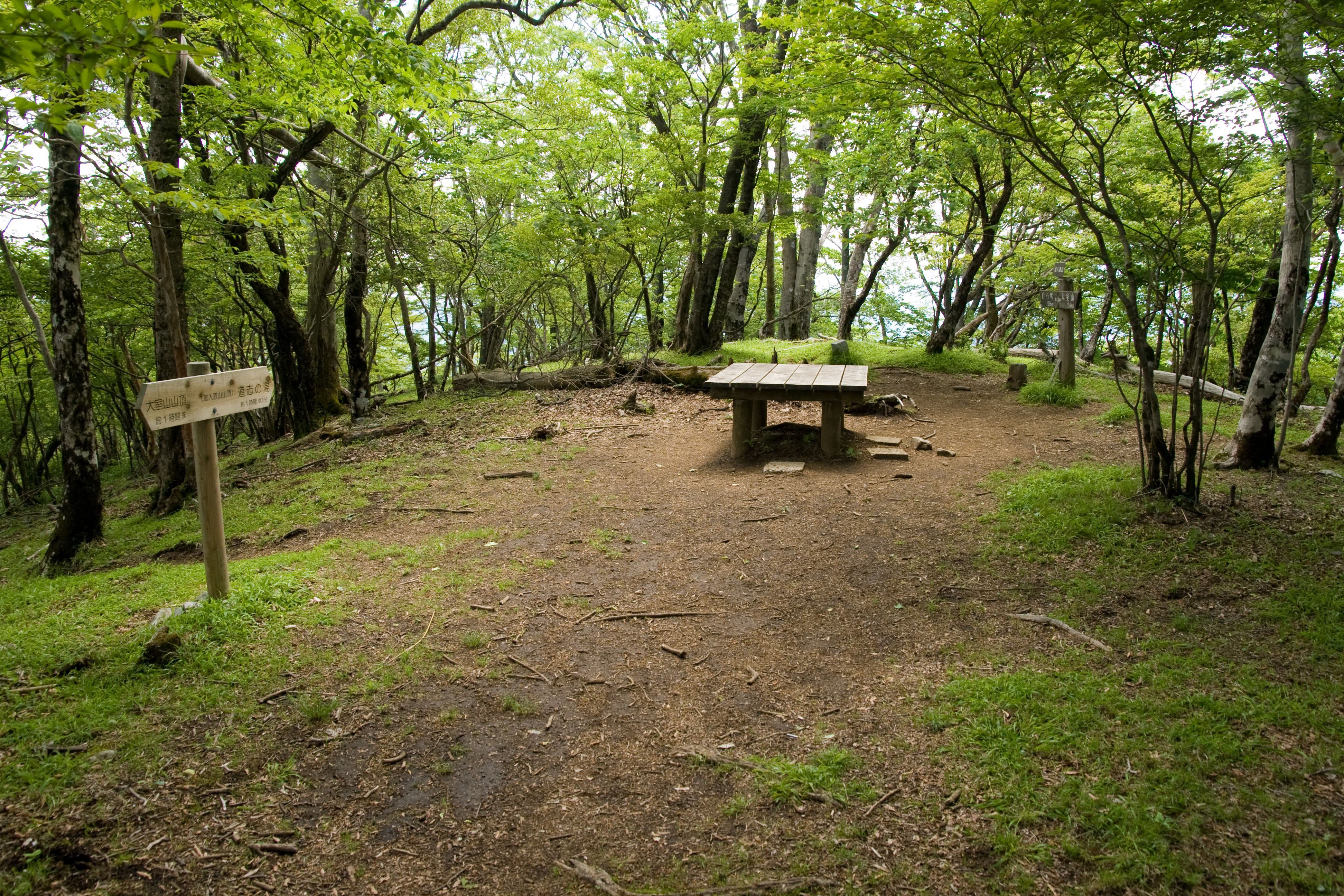 The summit of Mt.Kanyudo, Tanzawa Mountains, Honshu, Japan.